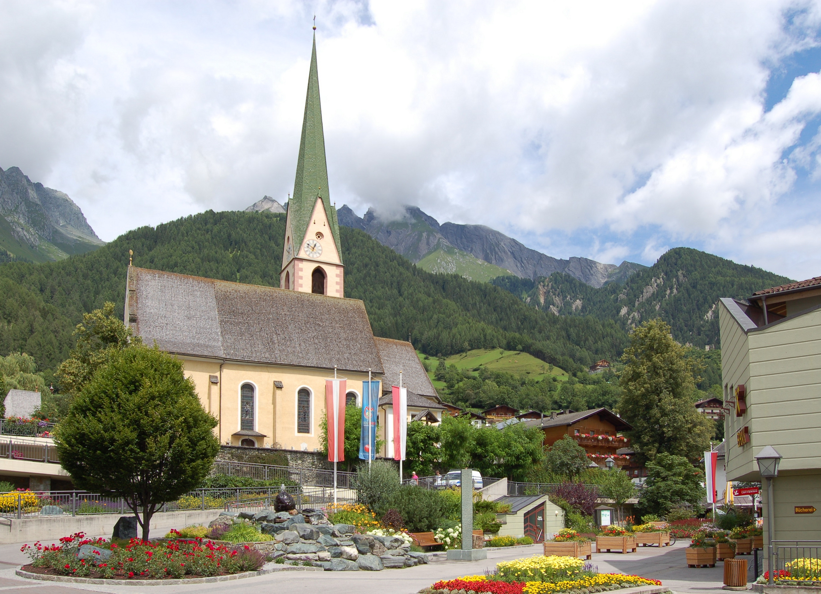 Pfarrkirche Virgen, Osttirol. Rechts die als Naturdenkmal geschützte Linde. This media shows the natural monument in the Tyrol with the ID ND_7_29.